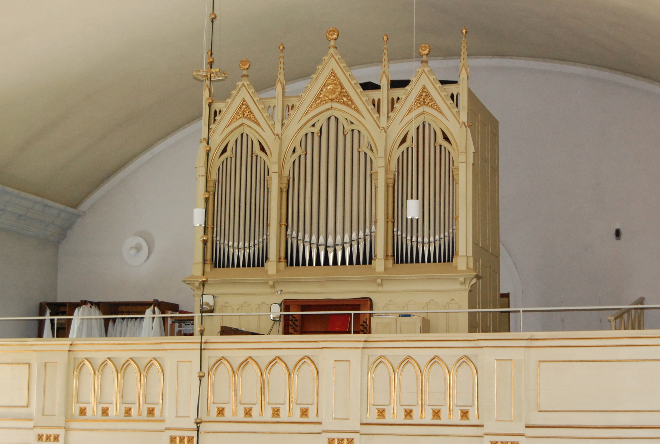 Ljungby Church.Organ with neo-gothic facade